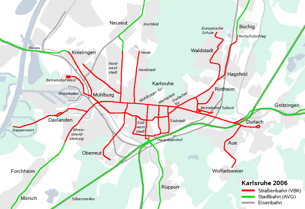 Map of local tram lines in the city of Karlsruhe (Germany) and vicinity, as of 2006.